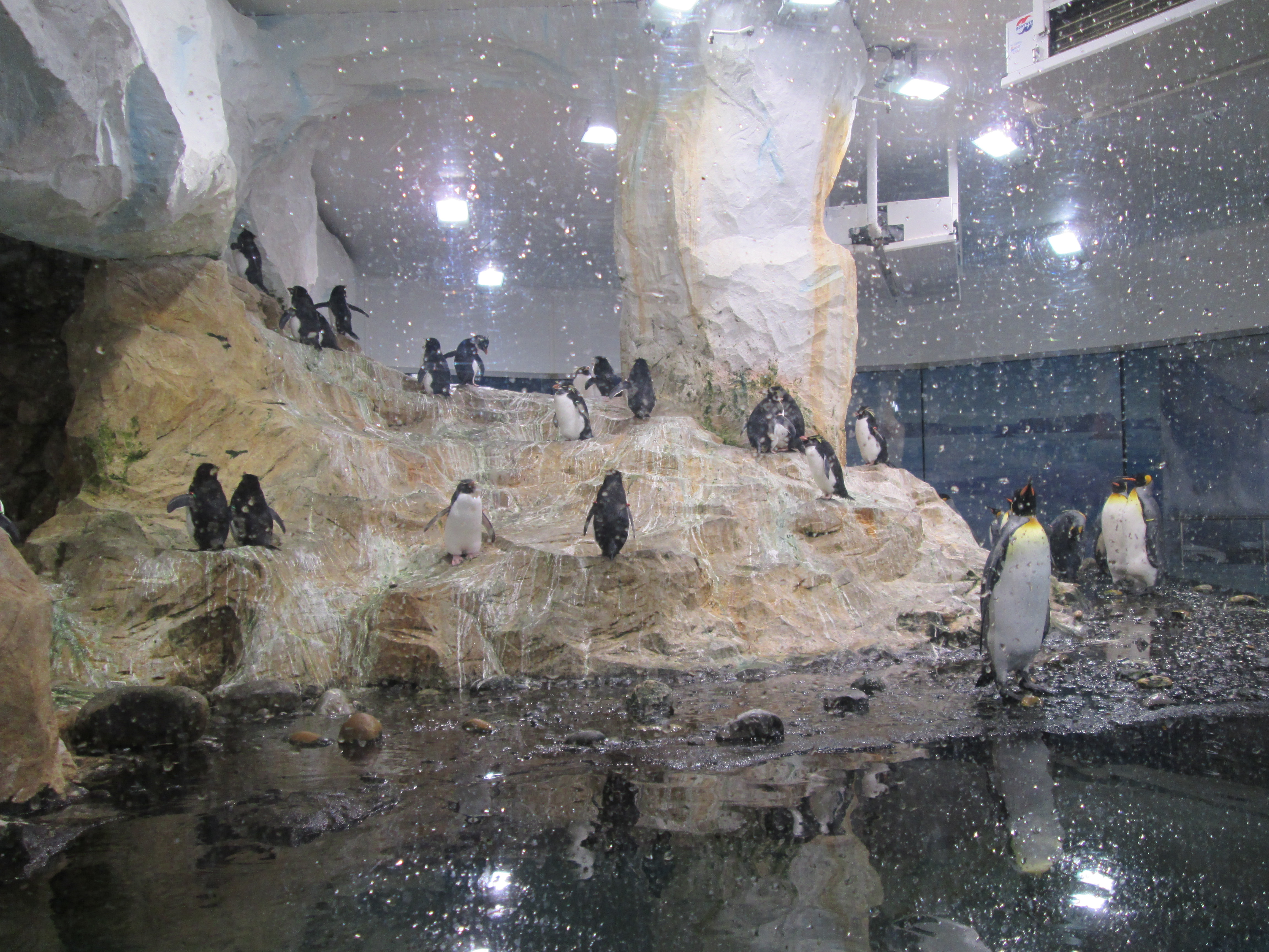 The Antartica Zone with Aptenodytes patagonicus, Eudyptes chrysocome, Pygoscelis papua and Eudyptes chrysolophus at Marineland of Antibes FRANCE